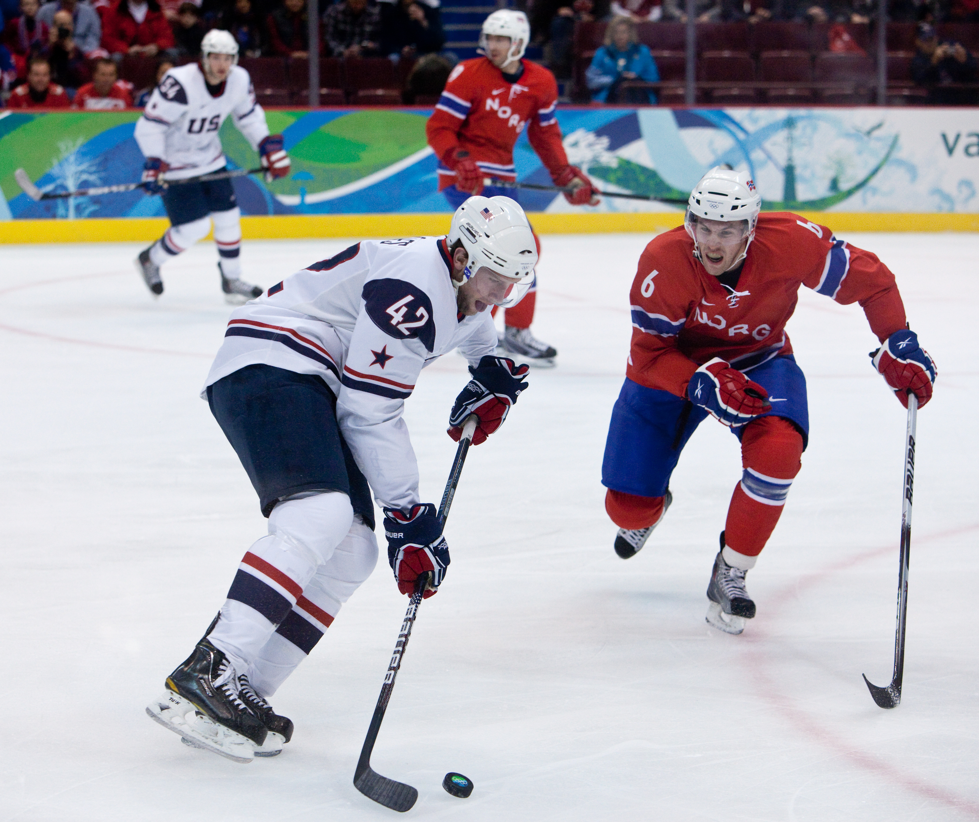 Jonas Holøs of Norway and David Backes of the United States during the 2010 Winter Olympics